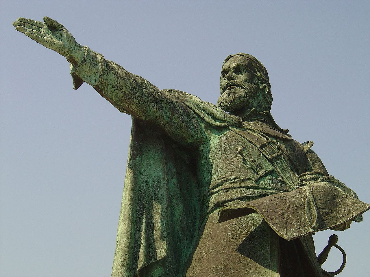 Statue of Pedro Teixeira in Cantanhede, Portugal